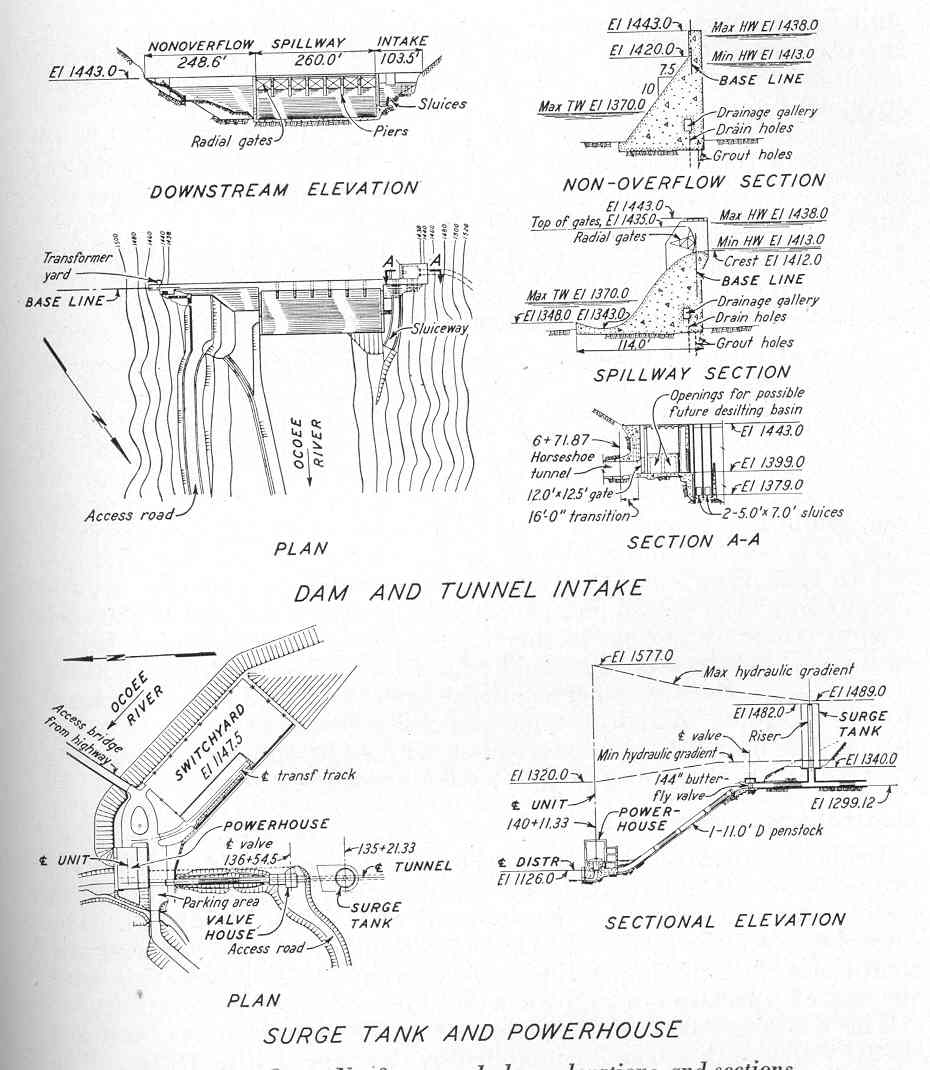 TVA's design plan for Ocoee Dam No. 3 on the Ocoee River in Polk County, Tennessee, USA.